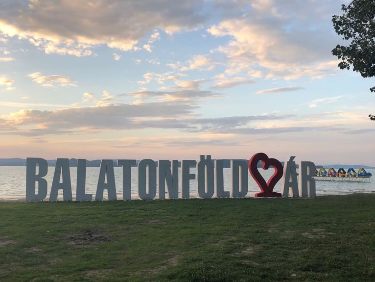 Logo of Balatonföldvár on the West Beach